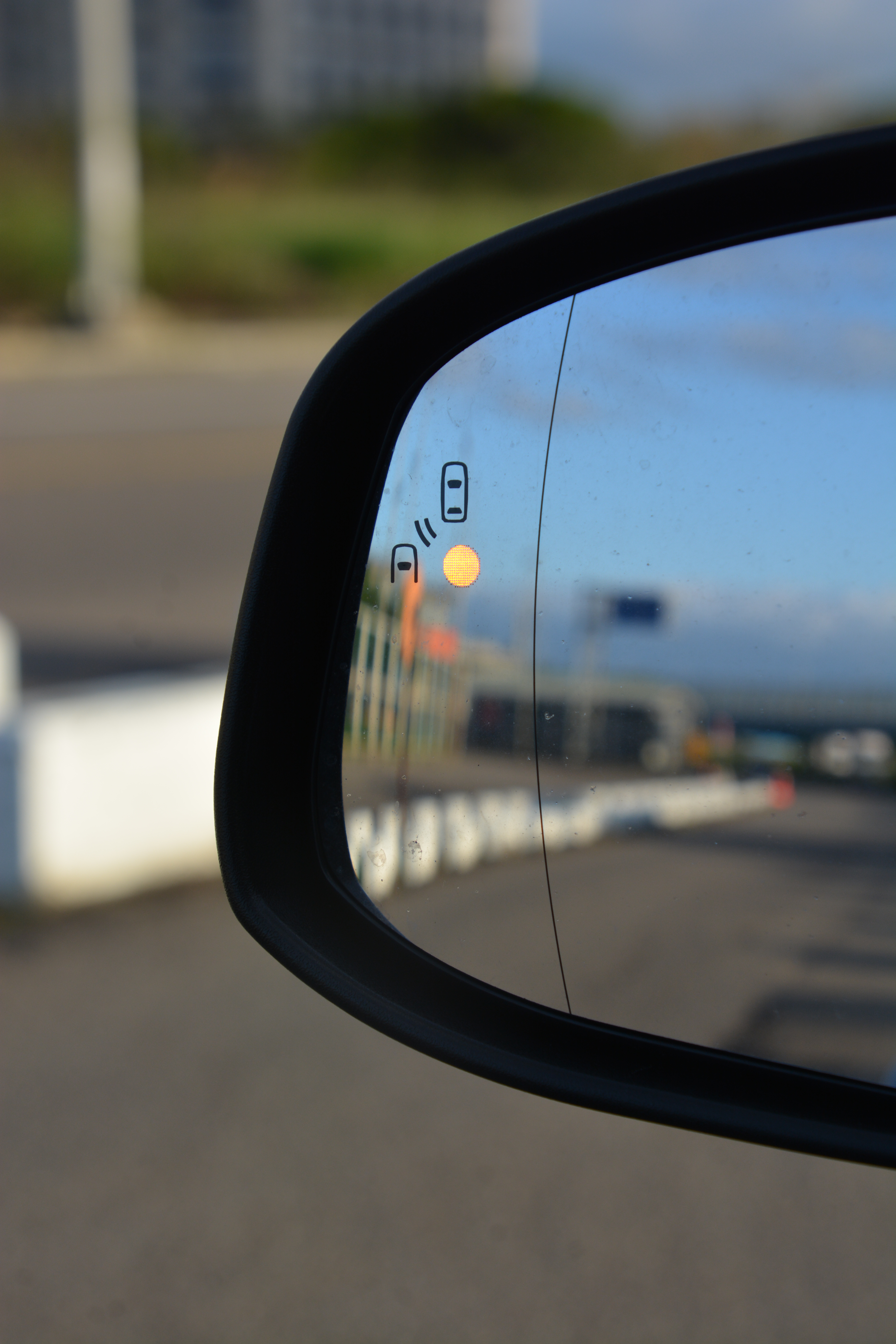 Blind Spot Indicator of 2016 Ford Focus 1.5T.